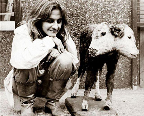 Photograph